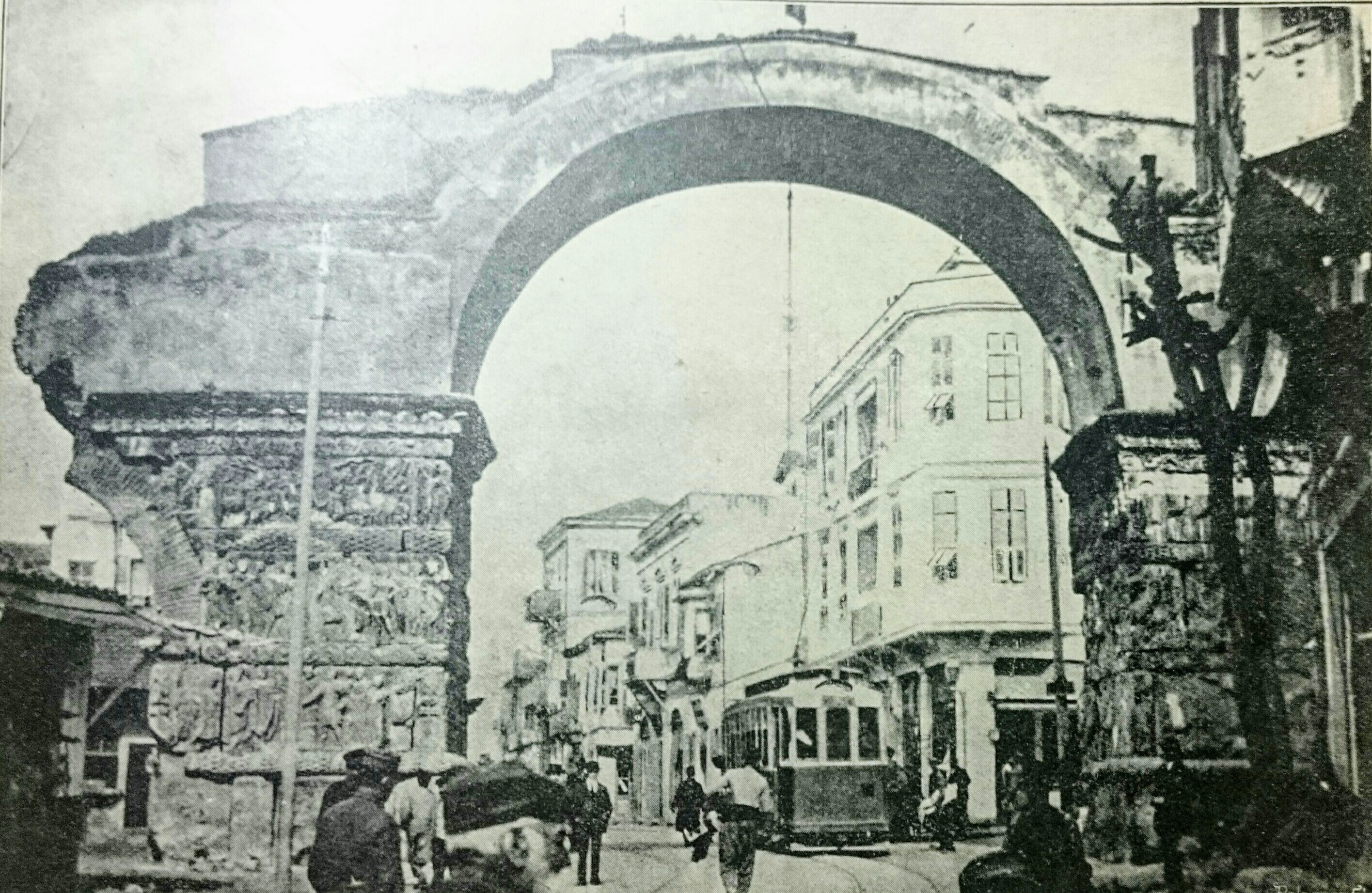 Arch of Galerius (1913)